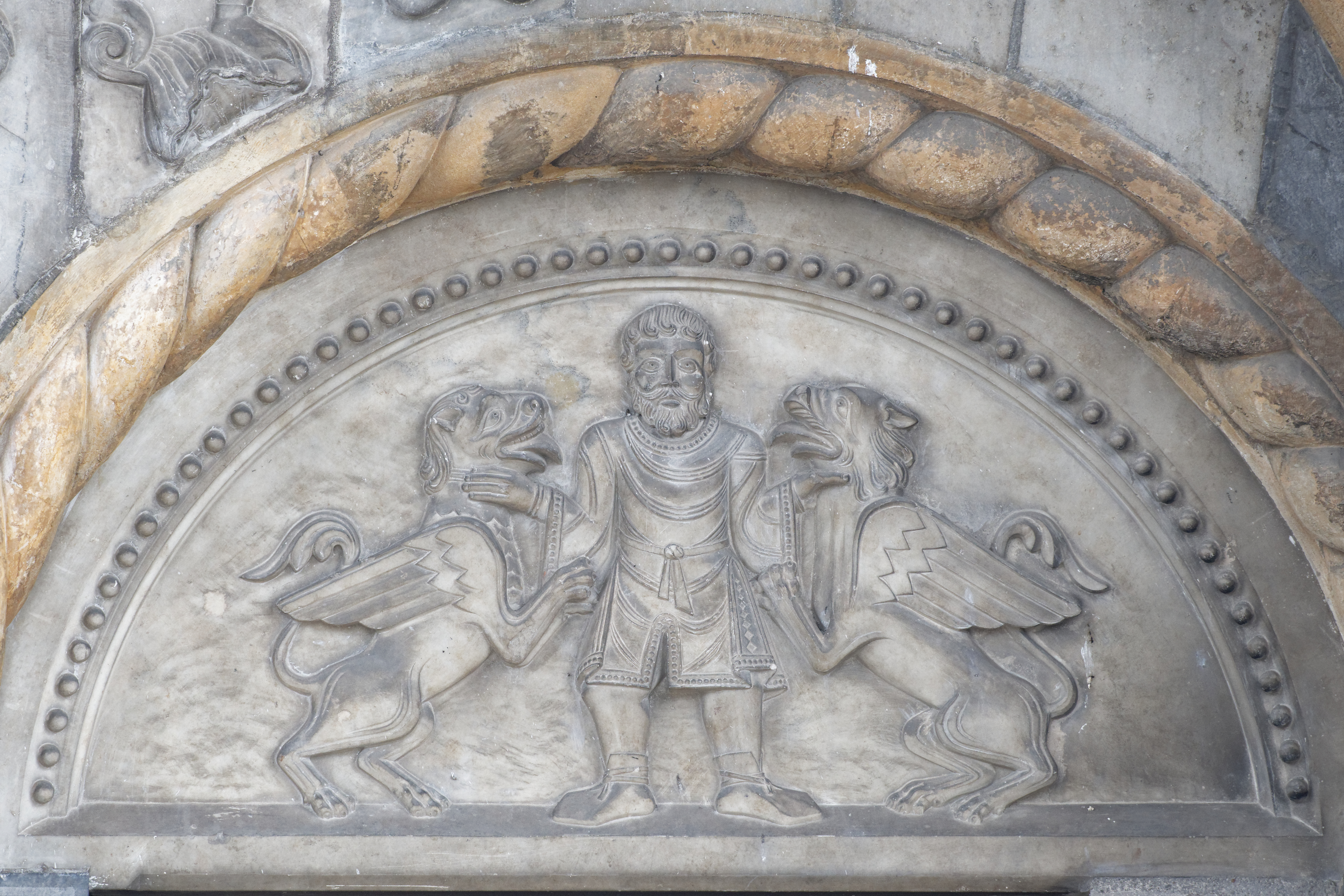 Portal of the cathedral in Oloron-Sainte-Marie, with the Ascension of Alexander the Great by griffins.